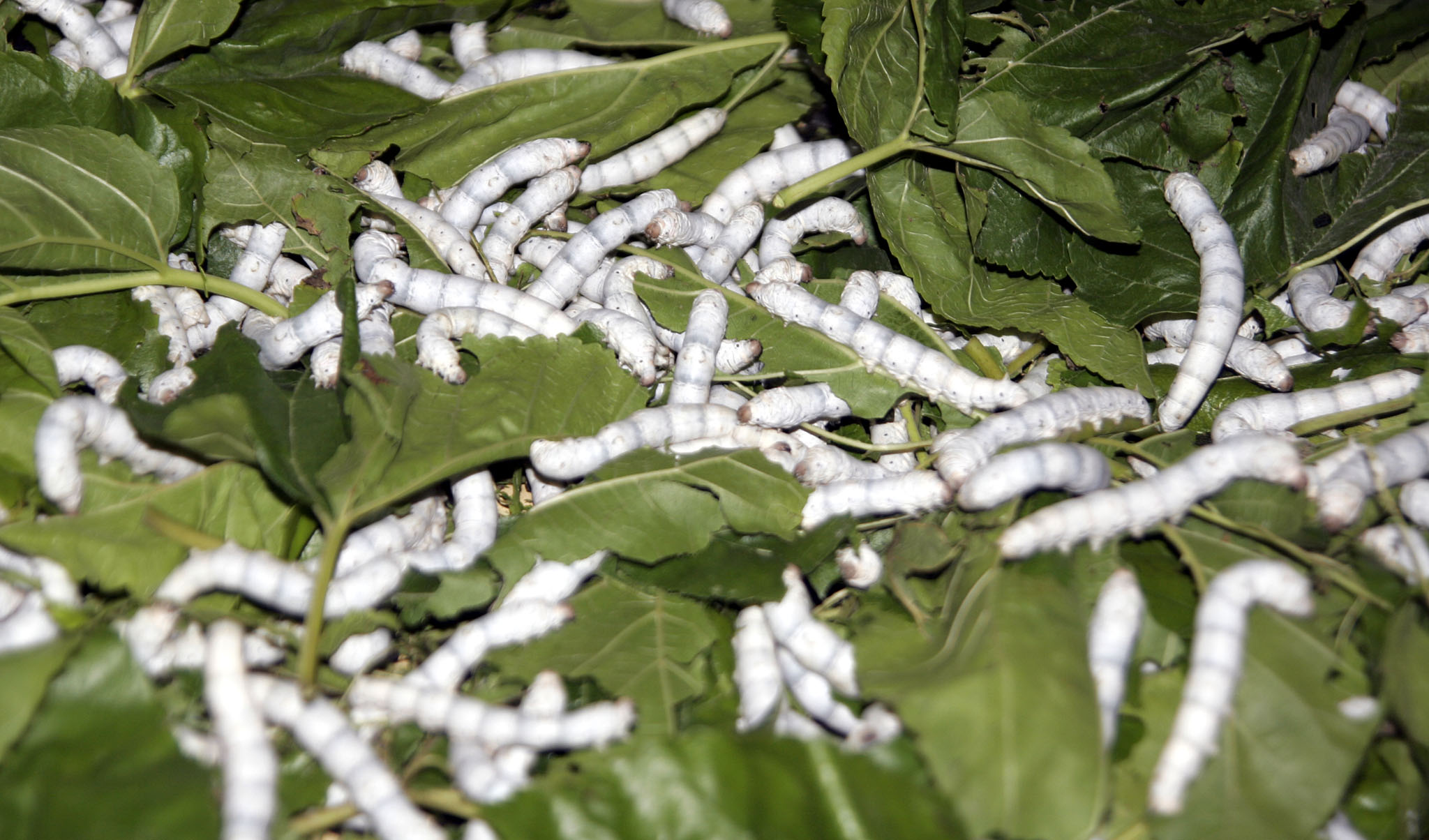 21 days old silk worms between mulberry leafs in the Suzhou No.1 Silk Mill in Suzhou (Jiangsu), China